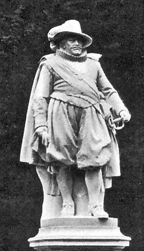 The central monument of monument group № 23 in the former Siegesallee in Berlin commemorating Johann Sigismund, Elector of Brandenburg. Sculptor: Peter Breuer. Unveiled on 30 August 1901.